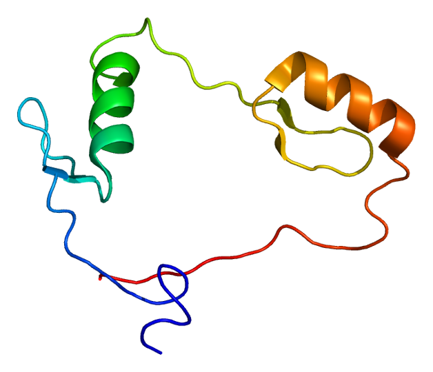 Structure of the CTCF protein. Based on PyMOL rendering of PDB 1x6h.